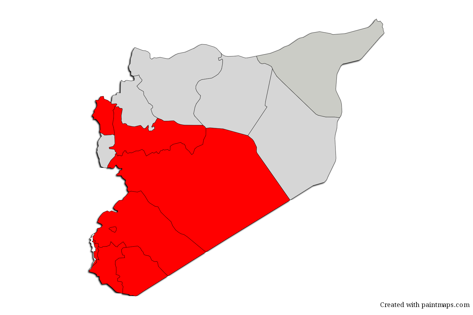 COVID-19 Syria cases